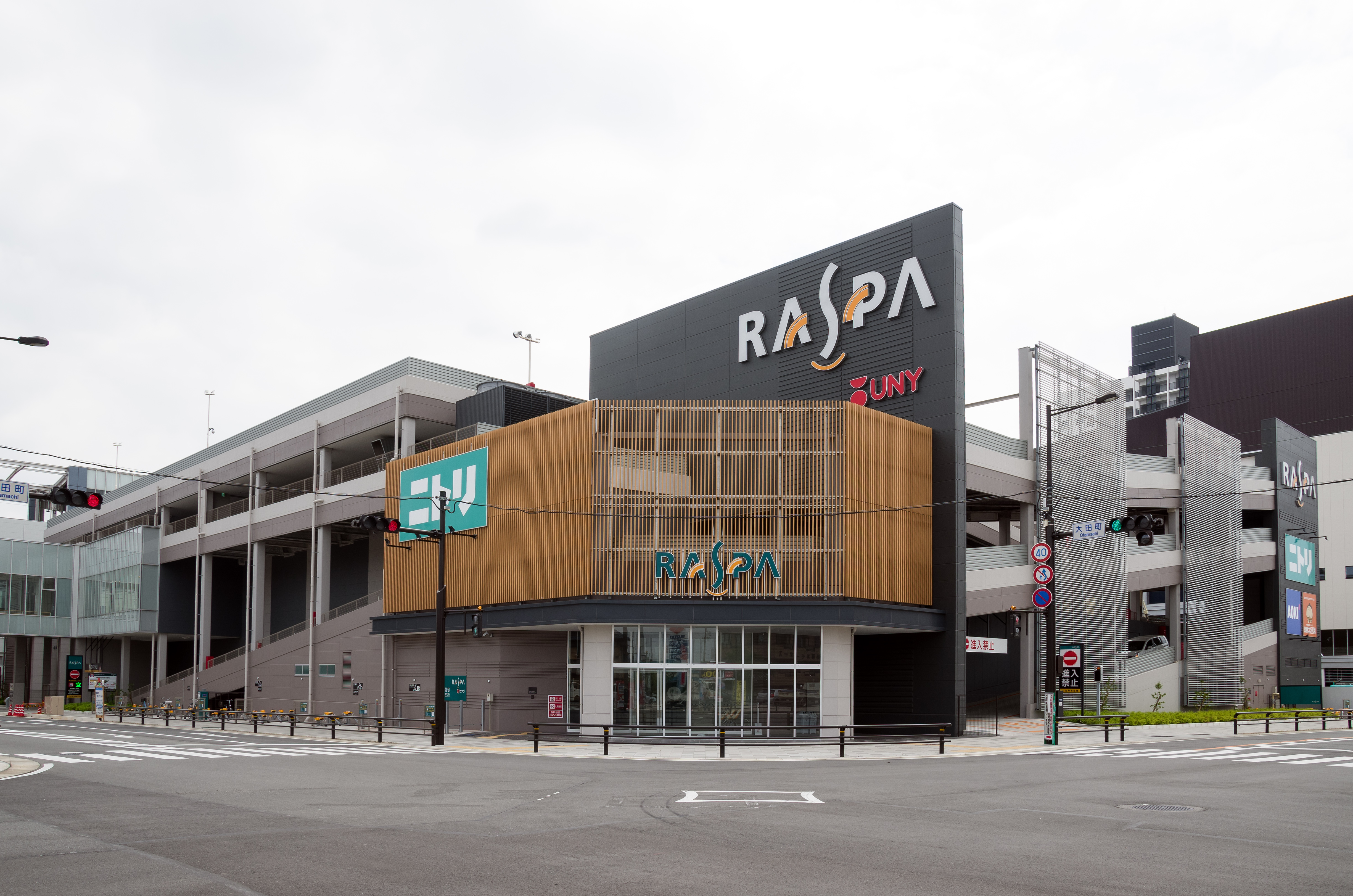 RASPA Otagawa (South Building), The shopping center which is located in Tokai City, Aichi, Japan.